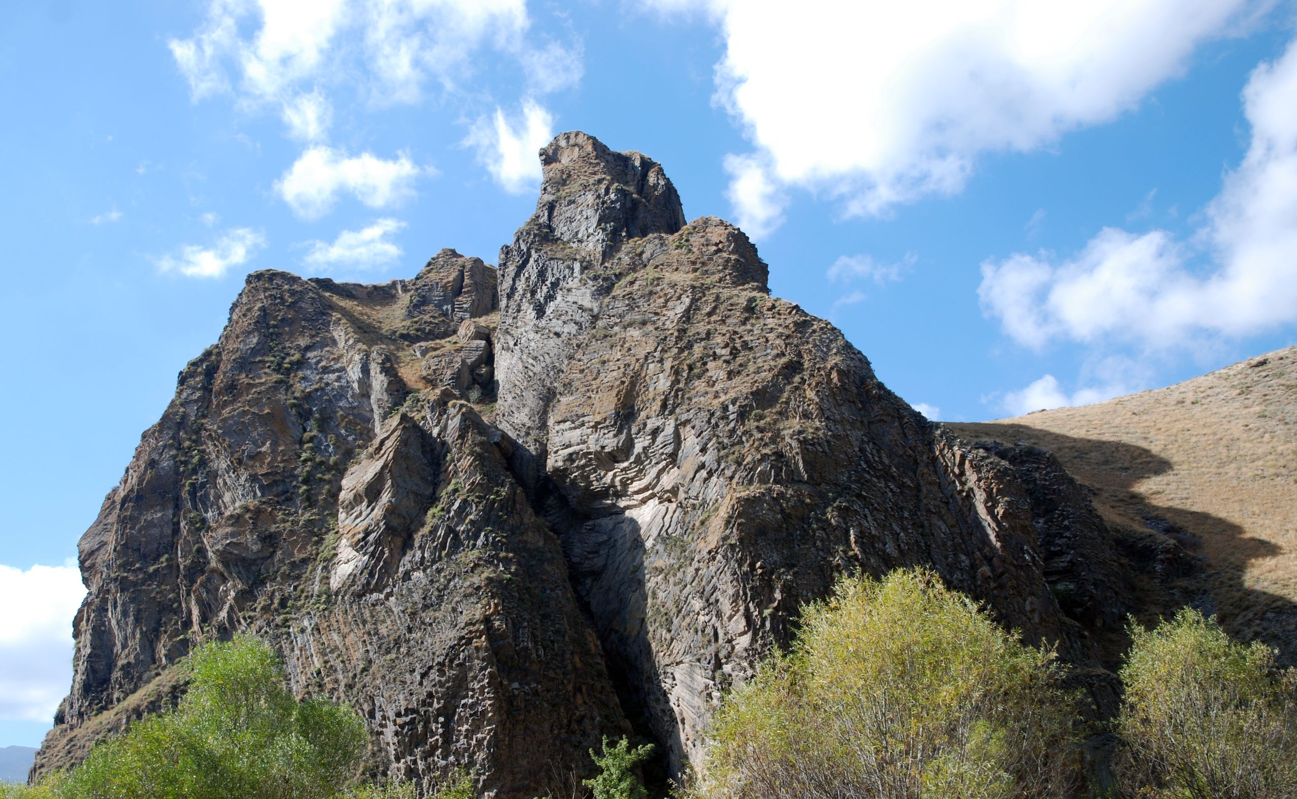 Vorotnaberd, near Vorotan, Syunik province